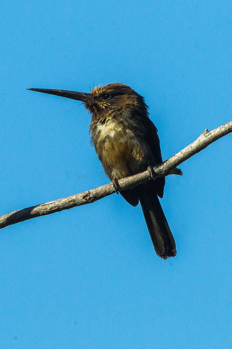 Three-toed Jacamar, Rio de Janeiro State, Brazil